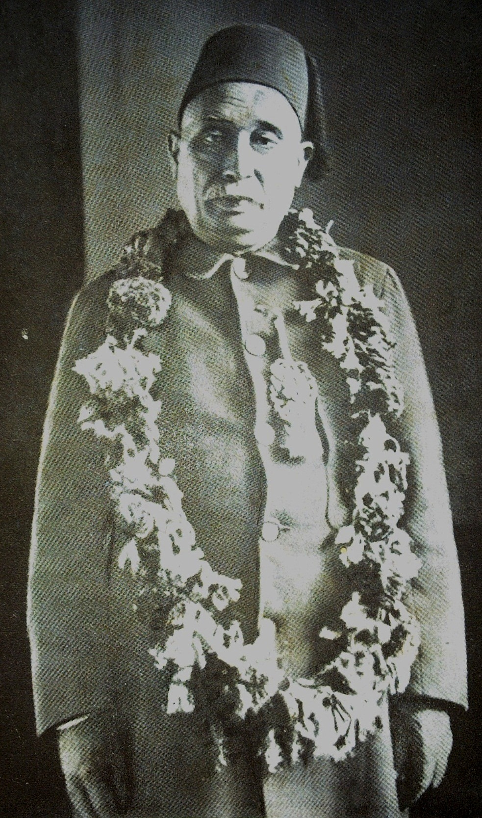 Photo of Bengali poet Kaykobaad (1857-1951)